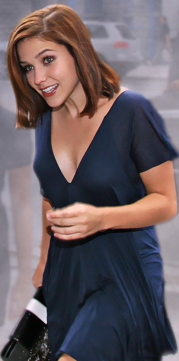 Sophia Bush at the 2008 Toronto International Film Festival